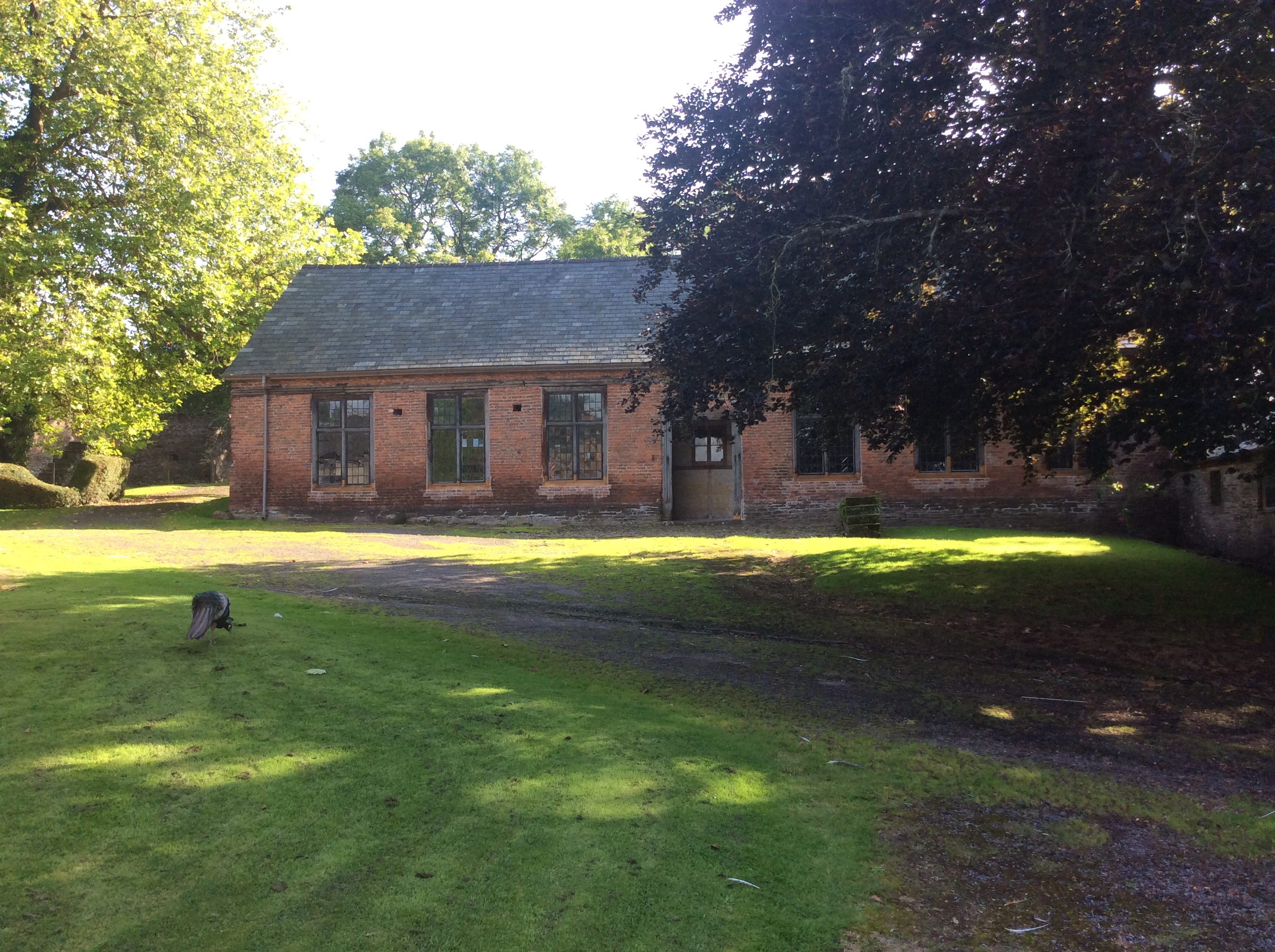 Stables at Llanvihangel Court, Llanvihangel Crucorney, Monmouthshire